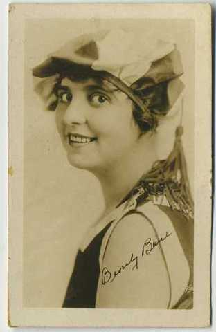 Real Photo Movie Card of Beverly Bayne